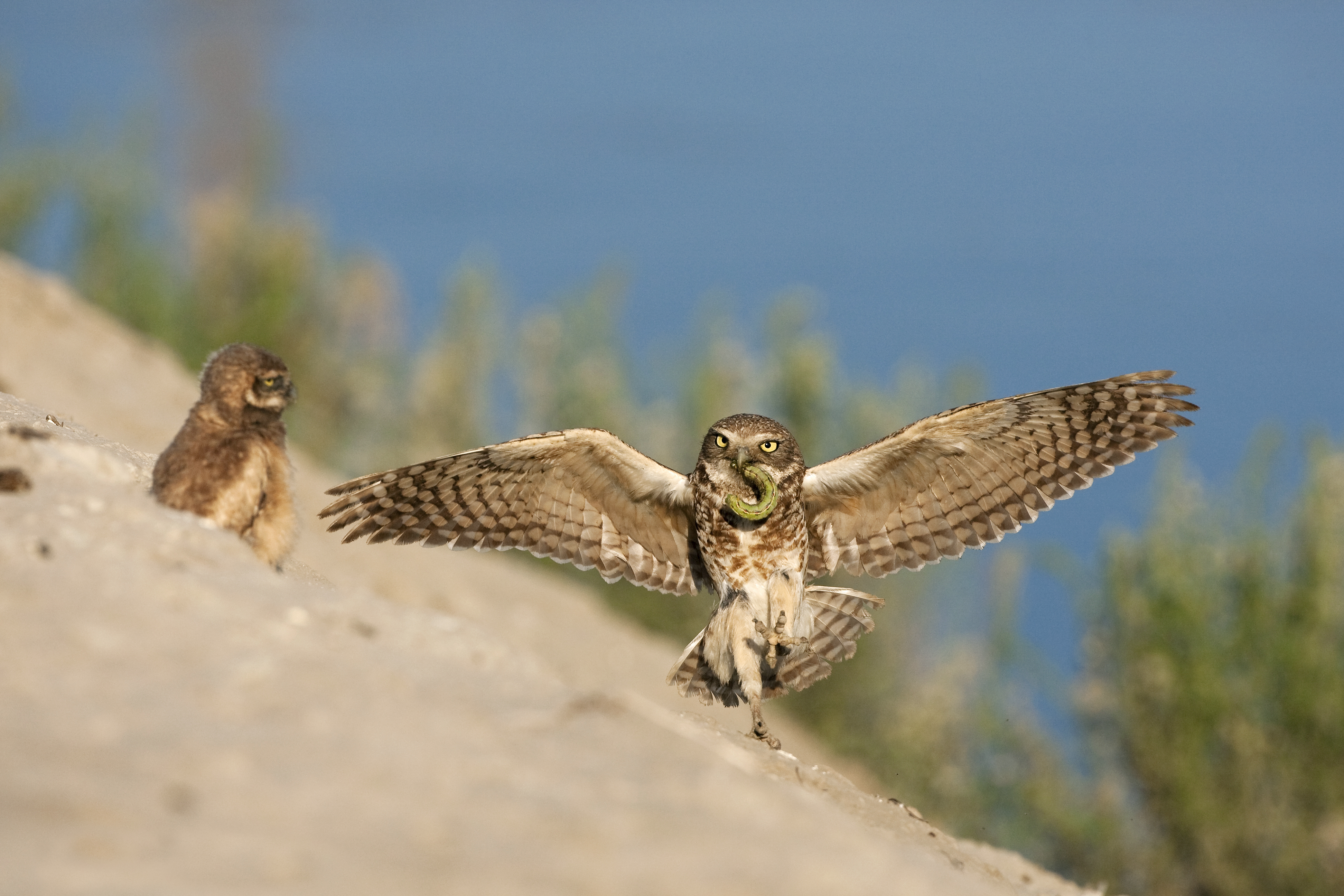 Our goal this season was to locate and monitor a breeding pair of Burrowing Owls. Anne and I were fortunate to locate four burrows near Fresno all active with pairs. It took several trips and many days monitoring behavior in an effort to be there at the right time when the owlets leave the burrow. I believe we missed the actual day by a week, but two of the owlets were easily identified as the last hatched. I am posting just a few of so many good images taken over the past two months and when time permits I am going to put together a slideshow for easy viewing. All images were taken from the van and very few have been cropped. This is the adult female owl bring food to one of the 7 owlets.